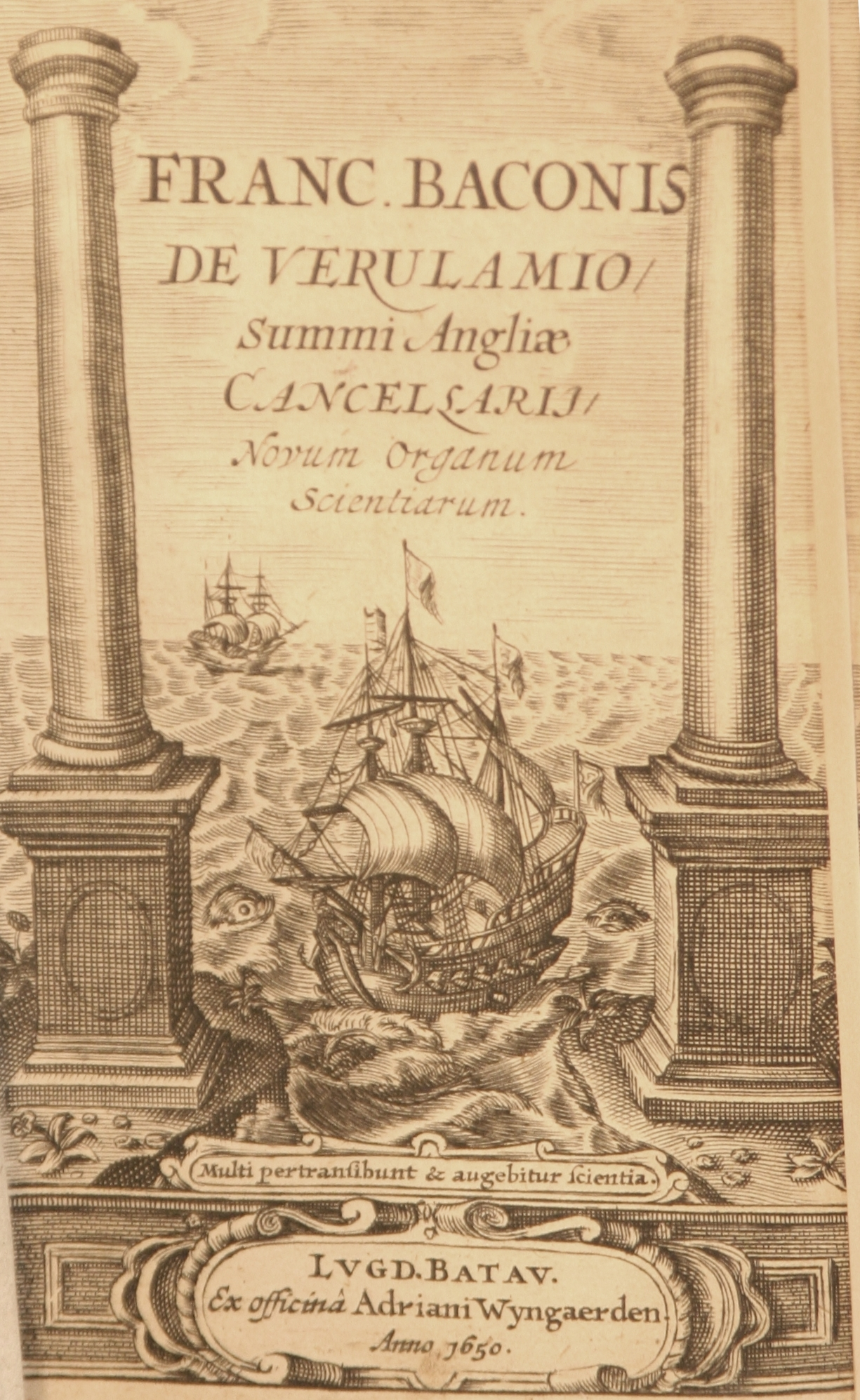 The frontispiece of Novum Organum by Francis Bacon